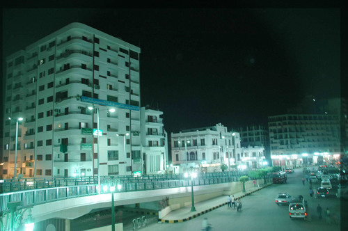 assyout city skyline , Egypt